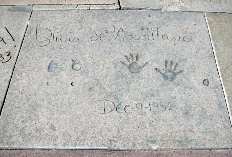 Olivia de Havilland's handprint